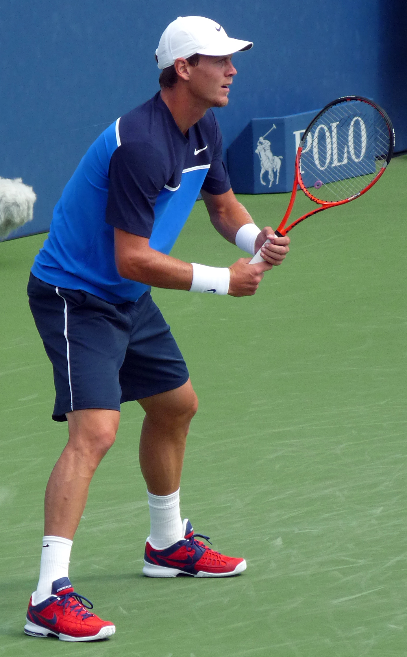 Tomáš Berdych [9] in the Men's Singles 3rd Round 2011 US Open vs. Janko Tipsarević [20] 6–4, 5–0, retired at Louis Armstrong Stadium